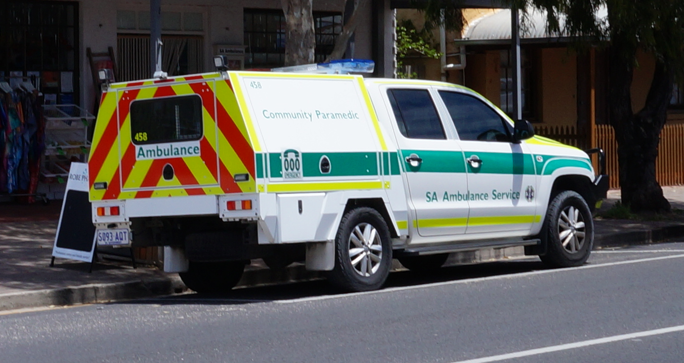 4x4 Community Response Vehicle in service with the SA Ambulance Service, taken December 2017.